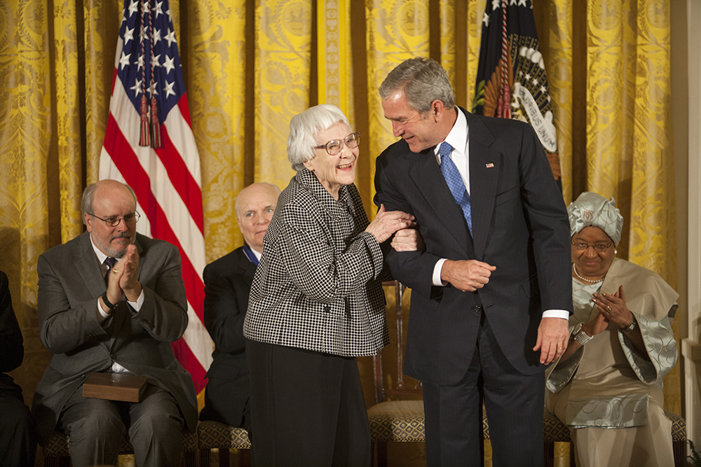 President George W. Bush awards the Presidential Medal of Freedom to author Harper Lee during a ceremony Monday, Nov. 5, 2007, in the East Room. "To Kill a Mockingbird has influenced the character of our country for the better. It's been a gift to the entire world. As a model of good writing and humane sensibility, this book will be read and studied forever," said the President about Harper Lee's work. White House photo by Eric Draper